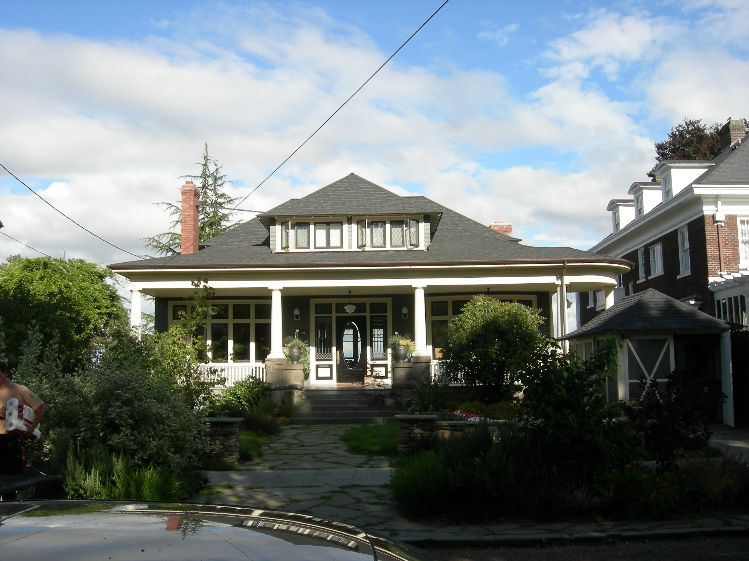 House in the 700 block of 35th Avenue in the Madrona neighborhood of Seattle, Washington.